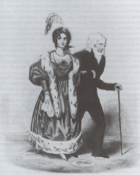 Dorothée de Courlande with Talleyrand in London (1830-34)